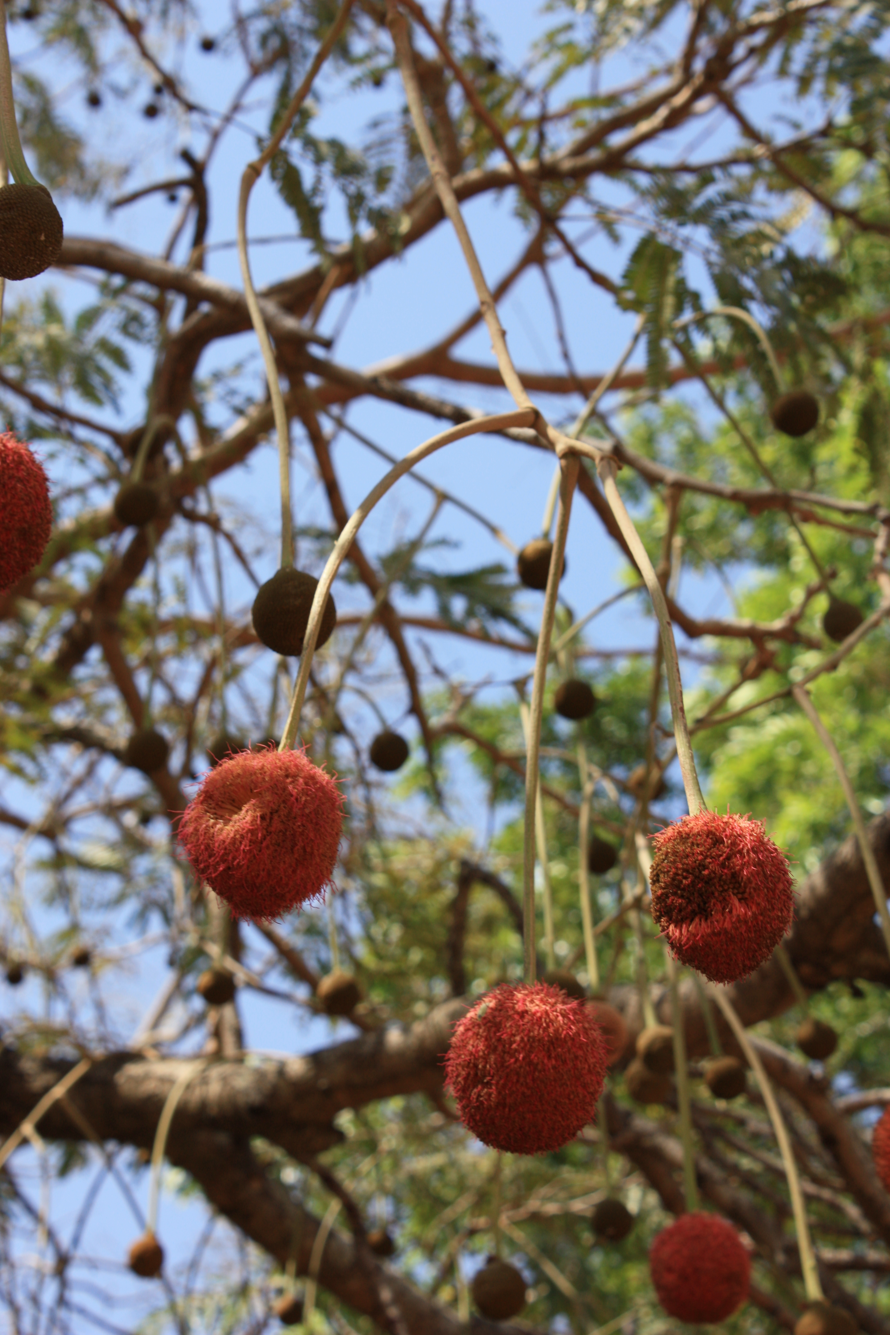 Inflorescences of Parkia biglobosa, SW Burkina Faso